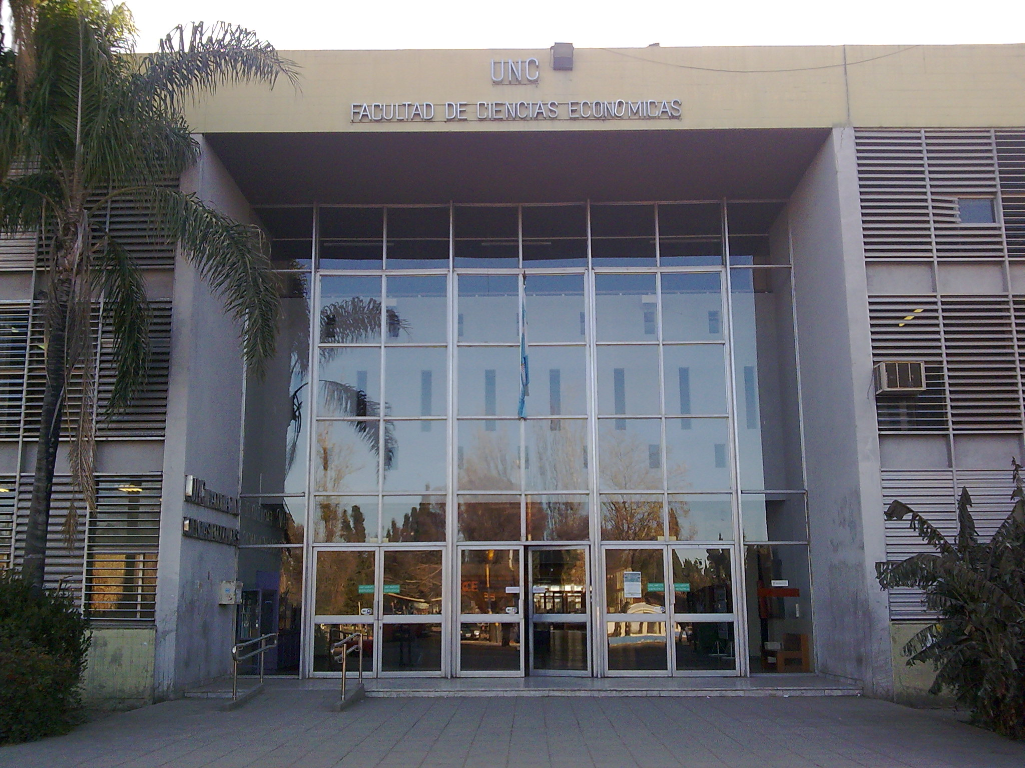 Main entrance to the Faculty of Economics, National University of Cordoba. Cordoba, Argentina.